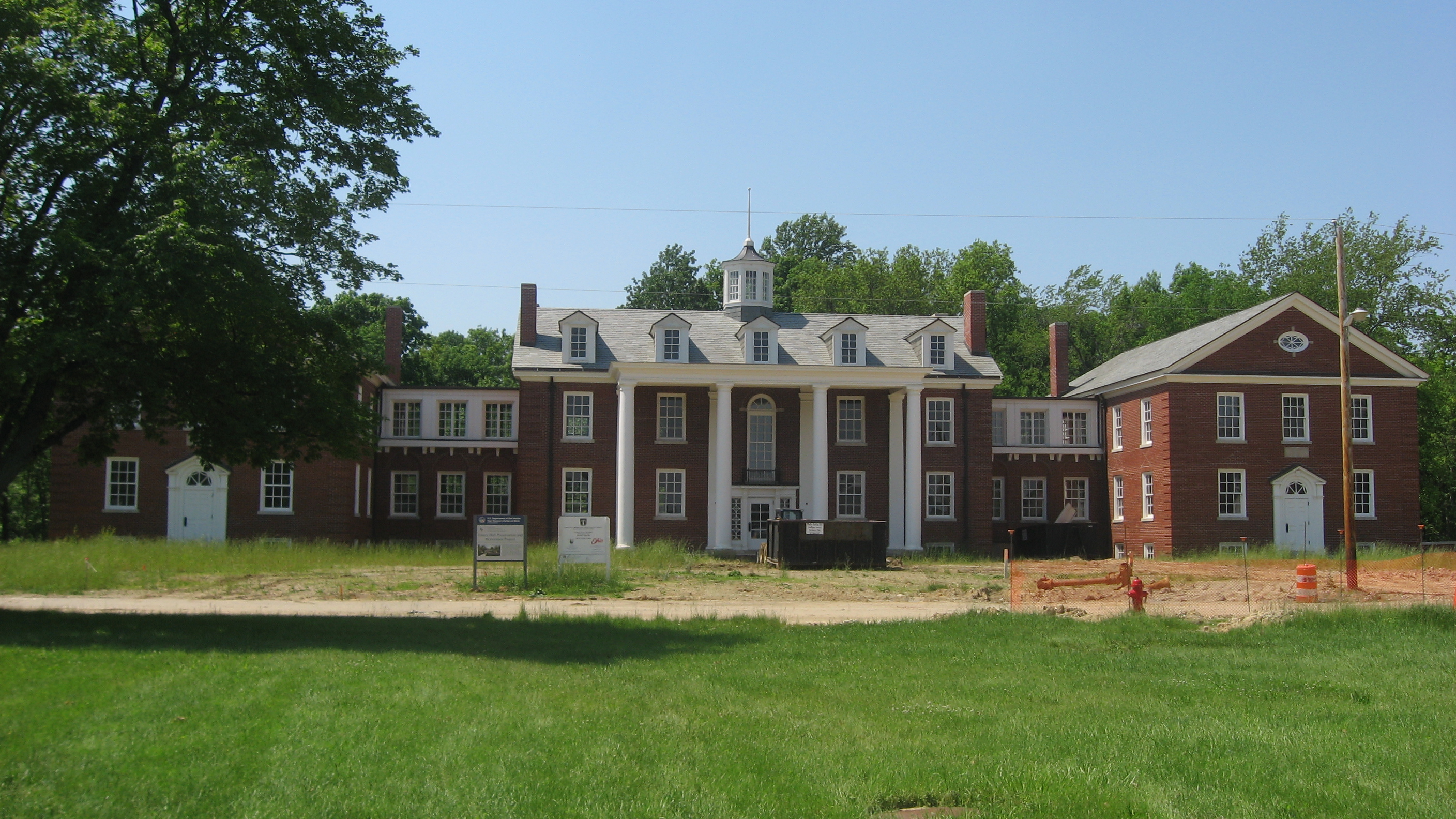 Front of Emery Hall, located on the campus of Central State University in Wilberforce, Ohio, United States. Built in 1913, it is listed on the National Register of Historic Places.